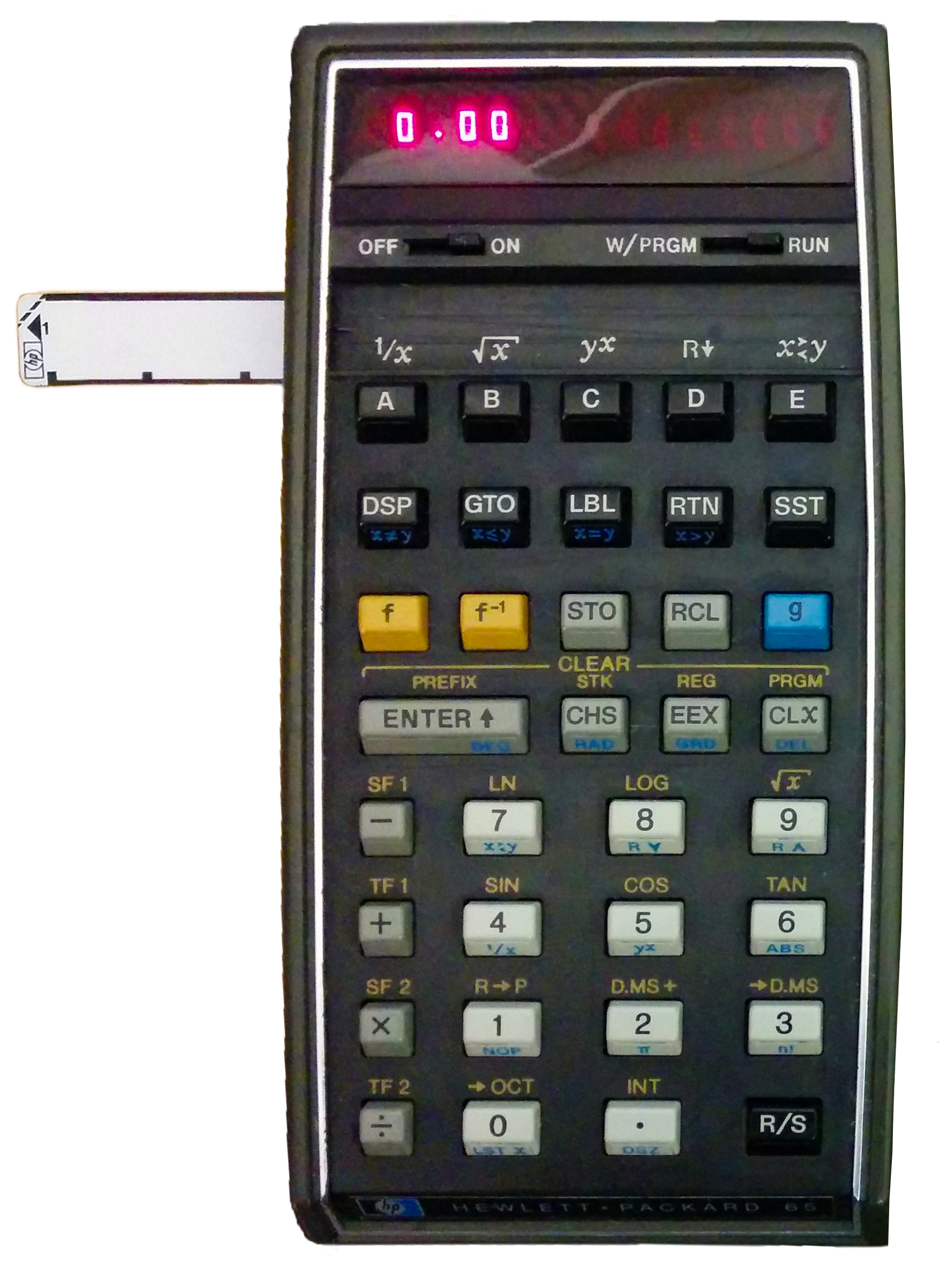 The HP-65 was the first Programmable Pocket Calculator in the World in 1974. It had a card reader to store programs on magnetic cards, see one in upper left corner. Steve Wozniak, one of the founders of Apple computer, sold his HP-65 to have the founding capital. The HP-65 was also used in space, e.g. during the US-Soviet Apollo-Sojus test project ASTP in 1975. Thus, it was also the first programmable calculator in space.